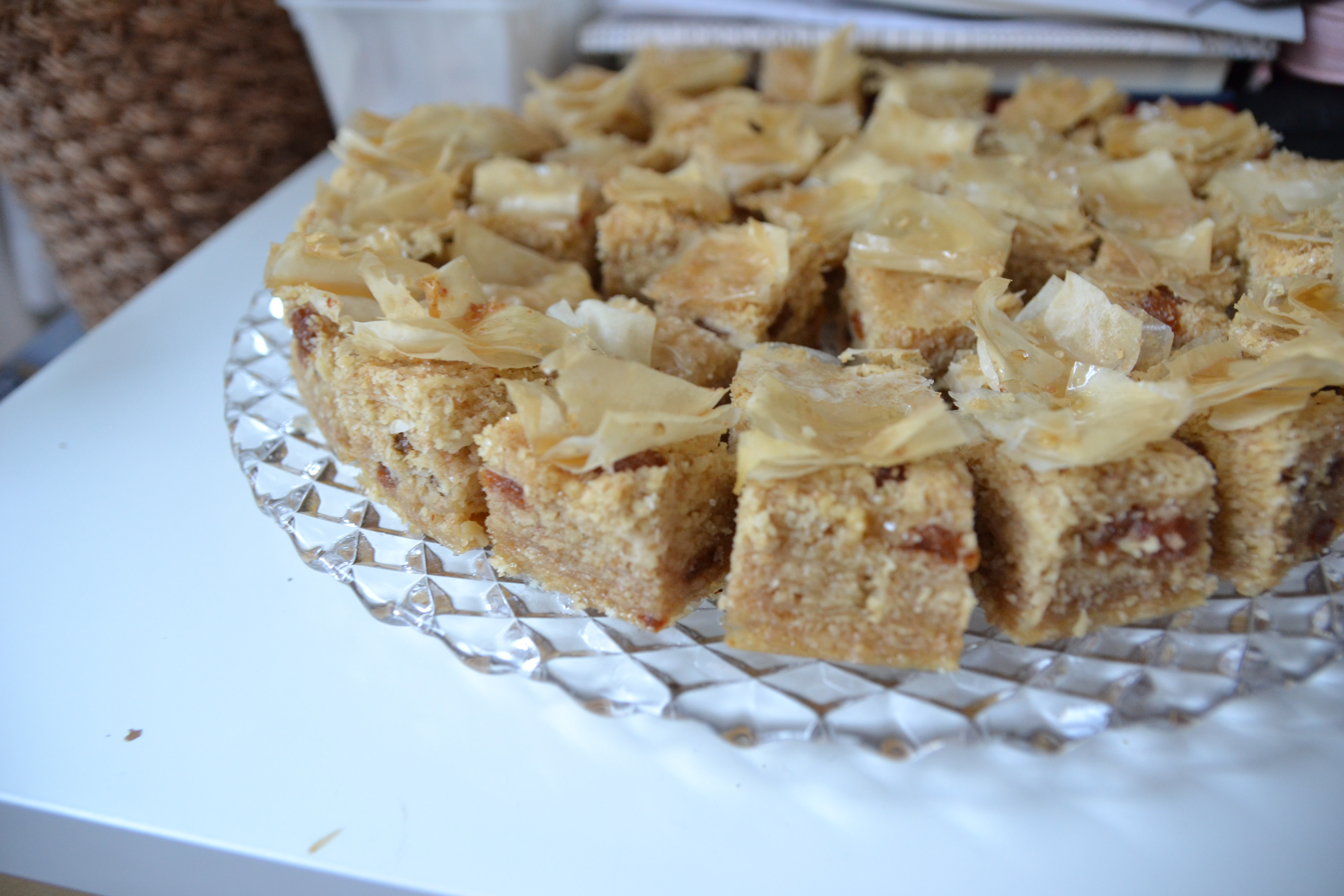 Suva pita - baklava-like desert made in central Serbia